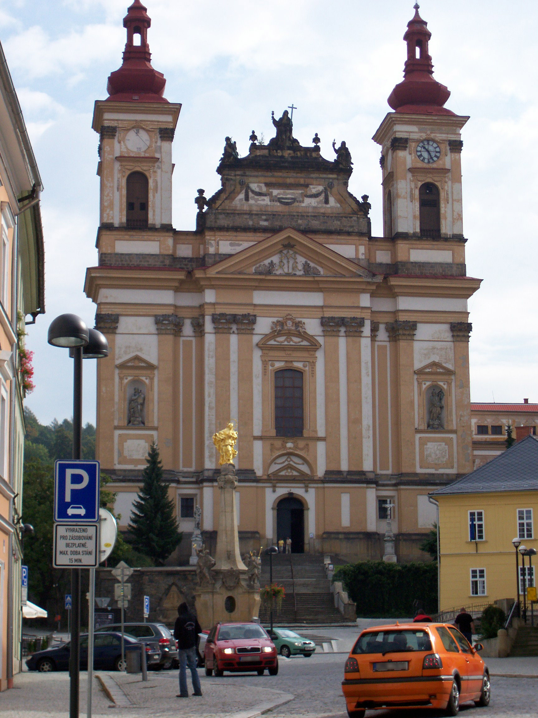 Šternberk: Church of the Annuciation of Virgin Mary